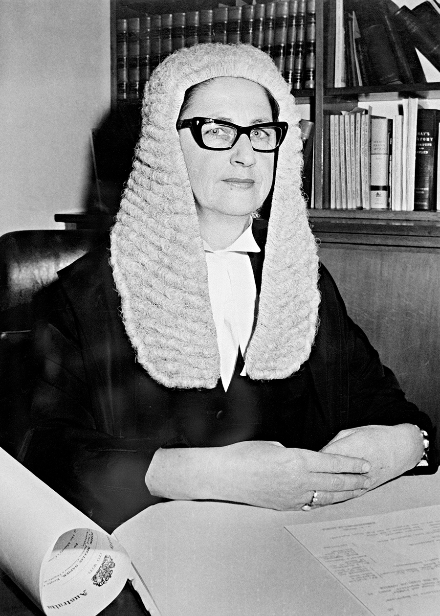 Roma Mitchell in 1965, wearing the robes and wig of a Justice of the Supreme Court of South Australia.